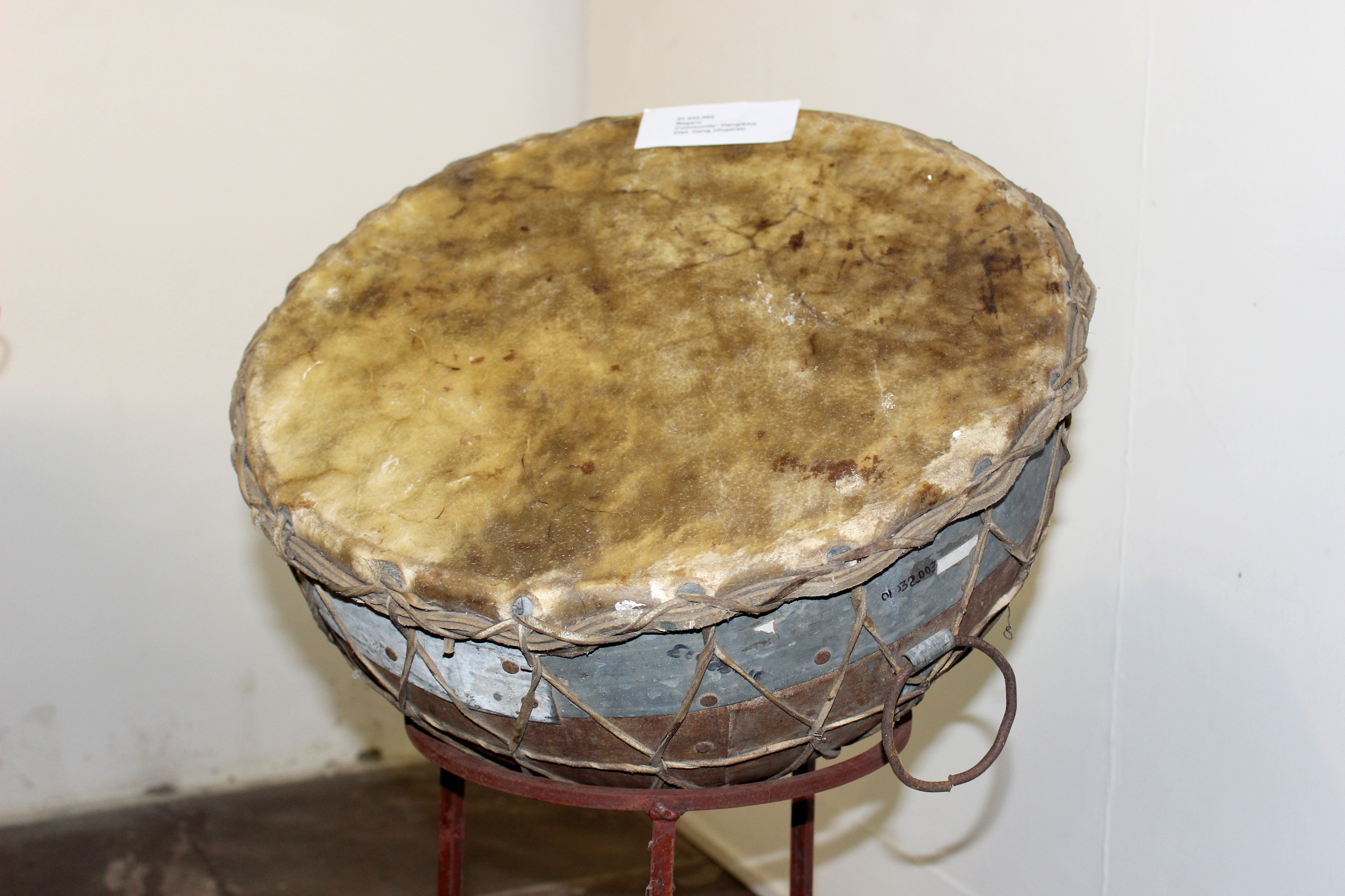 Motu Nagaru Rathaava Community Gujrat